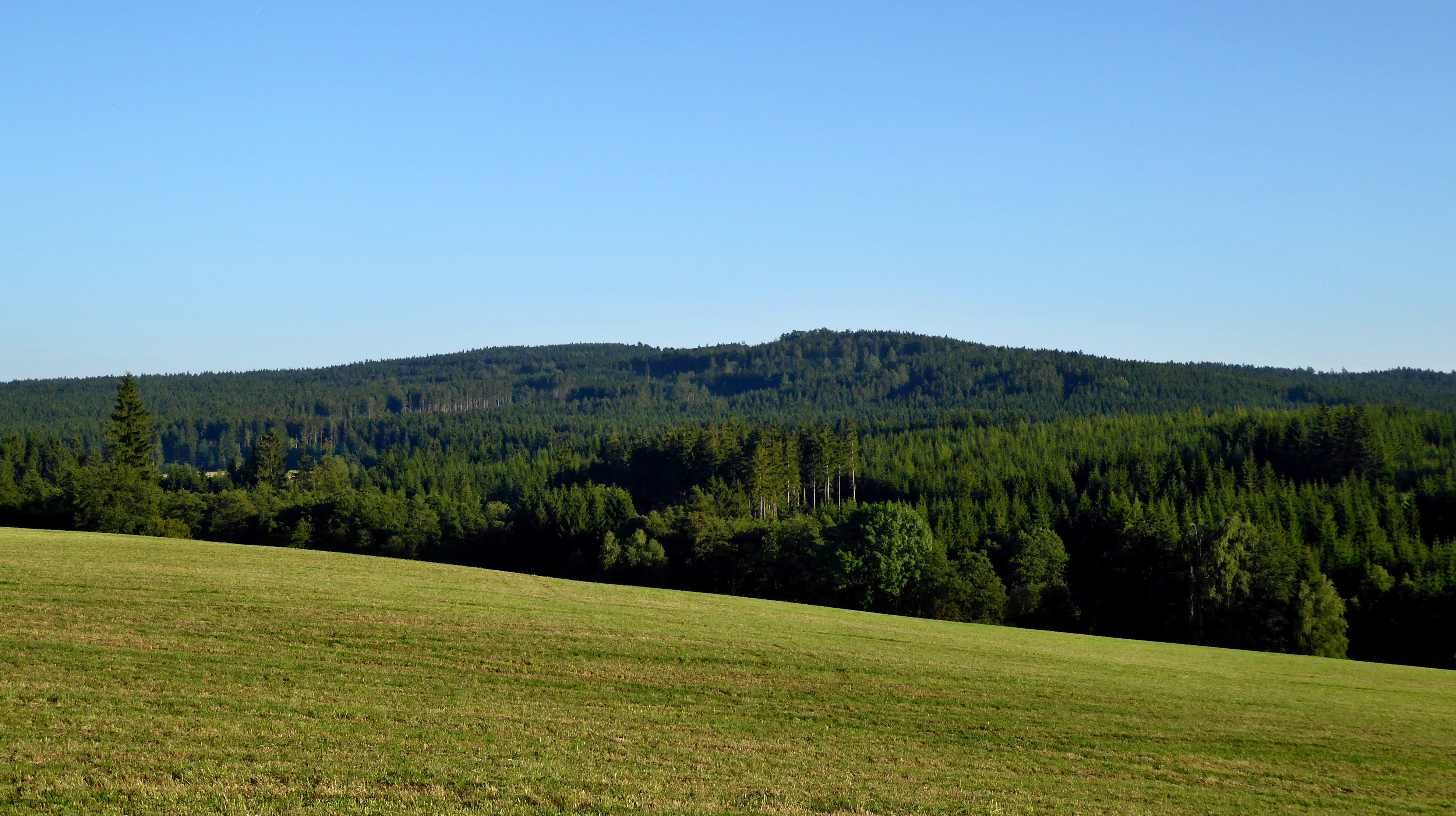 "Kopeček" (822 m) and "Pasecká" Rock (819 m) are peaks in the georelief of the "Pohledeckoskalská" Highlands, geomorphological district of the "Žďár" Hills. The saddle (the top 787 m) separates the hills, with the road II/354 in the section "Sněžné – Nové Město na Moravě". View of the peaks from the north-northwest, near the road connecting the villages of "Herálec" and Kadov. Note:"Pasecká" Rock in the photo is the summit on the right. In the detail above the wooded ridge the top of the mast for the high voltage distribution of the EGÚ Brno test station on the southwest slope of Kopeček hill.Photo-location: Czechia, "Vysočina" Region, the village of Kadov, the locality "Kopaniny" in the geomorphological district "Pohledeckoskalská" Highlands, view of the "Pasecká" rock (in the photo in right), distance 2,3 km (155°).